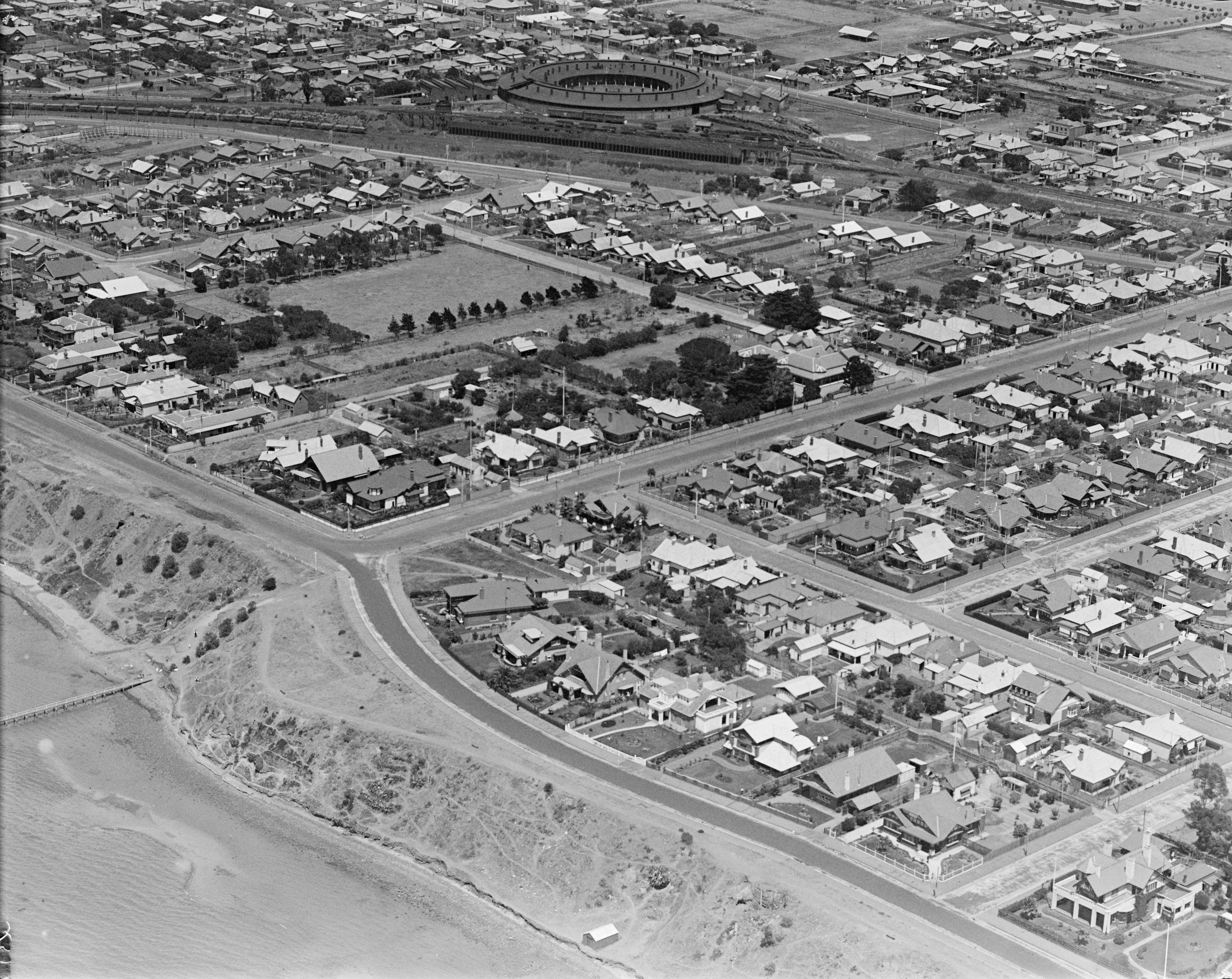 Aerial photograph of Drumcondra, showing railway turntable